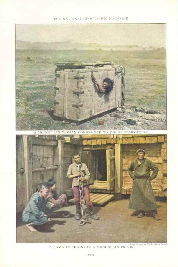 A Mongolian woman condemned to die of starvation. A lama in chains in a Mongolian prison.